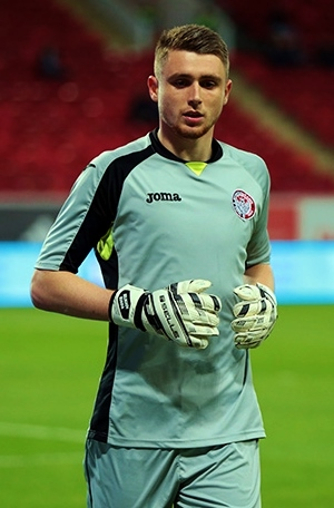 Aleksandr Aleksandrovich Selikhov